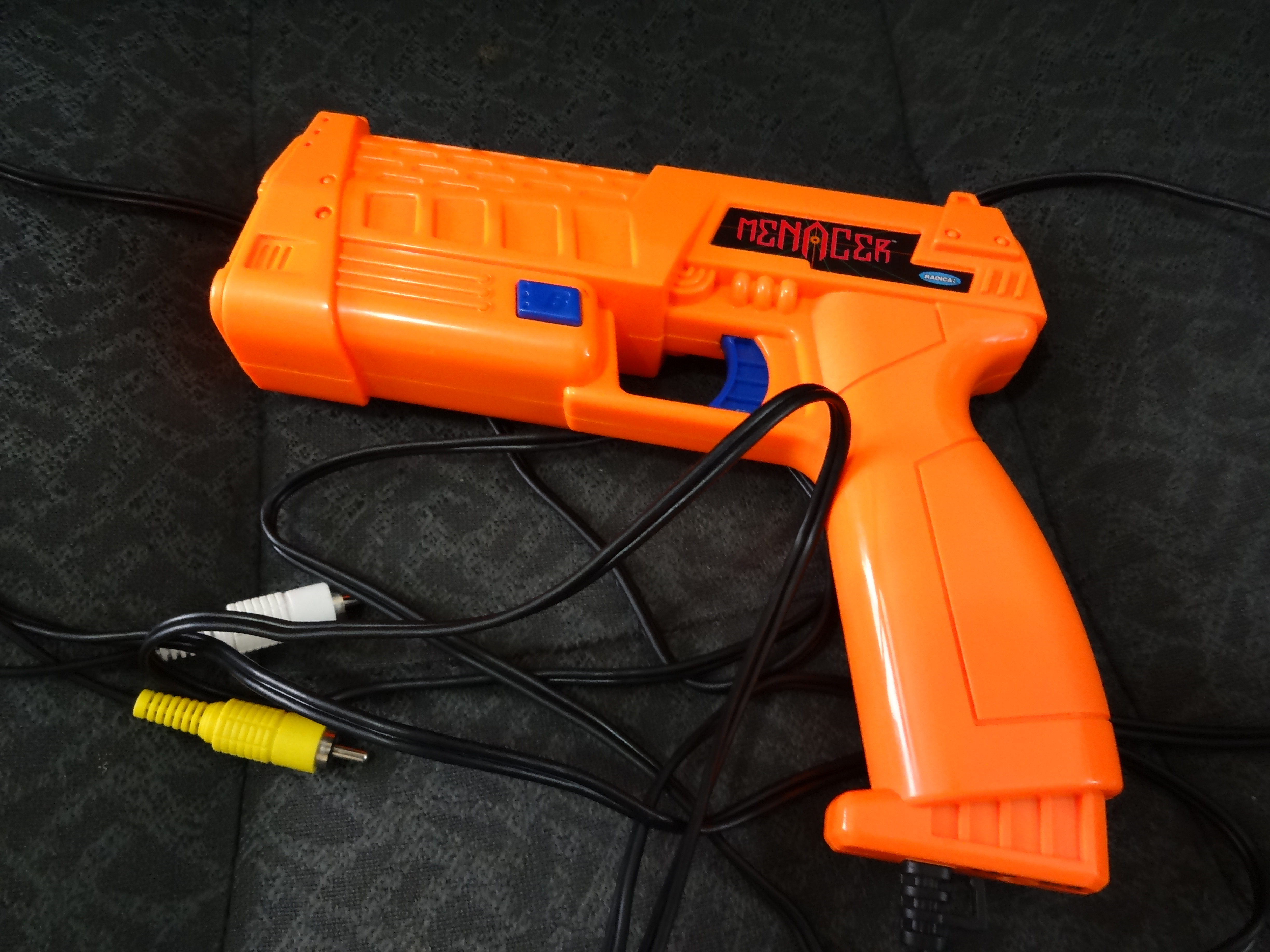 I had no idea what this was when I found it at goodwill, but it kicks ass! The control of this thing is a lot like using the wiimote, just point it at the screen and things move around. Blows the NES Zapper out of the water!